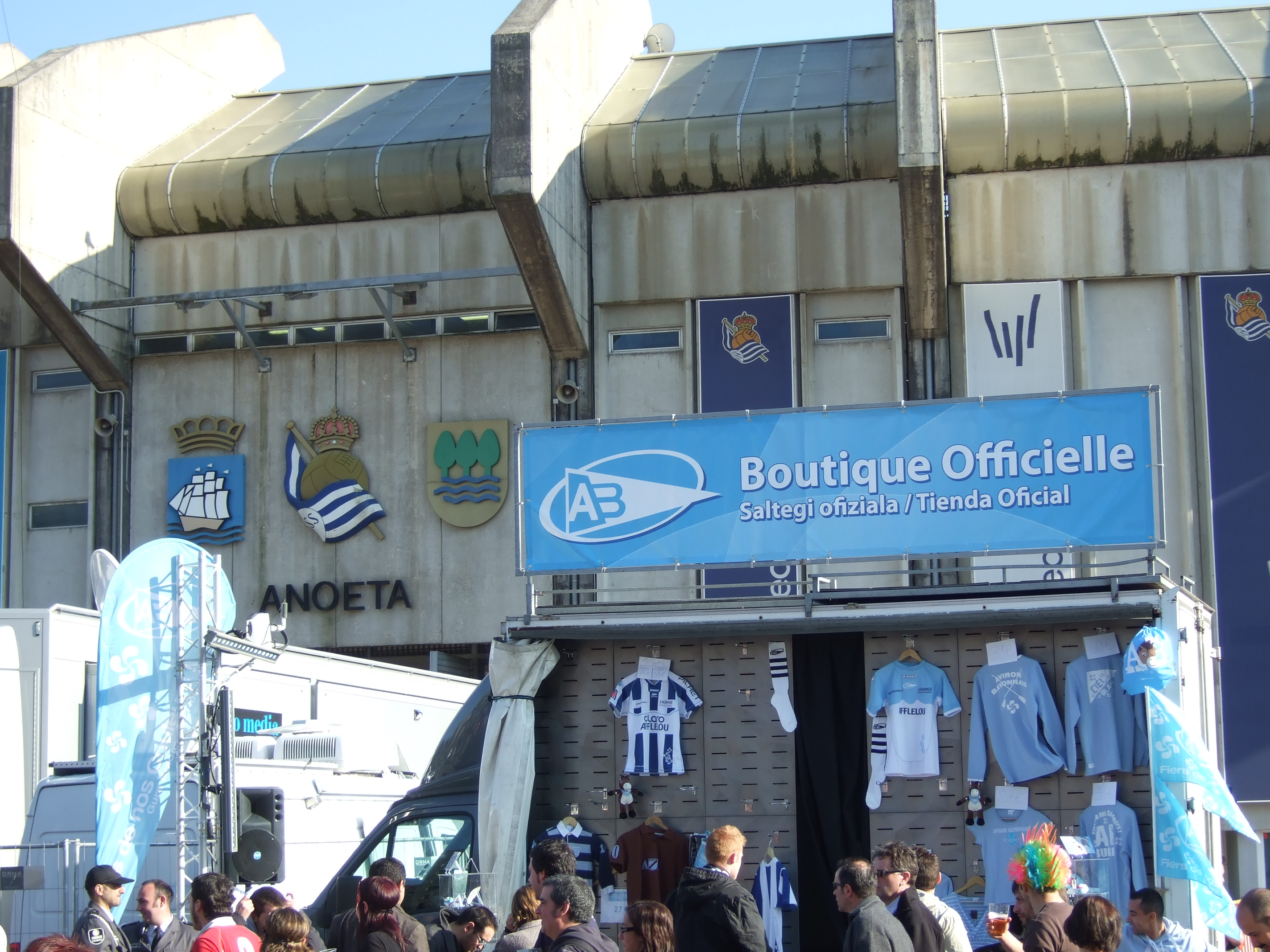 Aviron Bayonnais rugby team in Anoeta Stadium